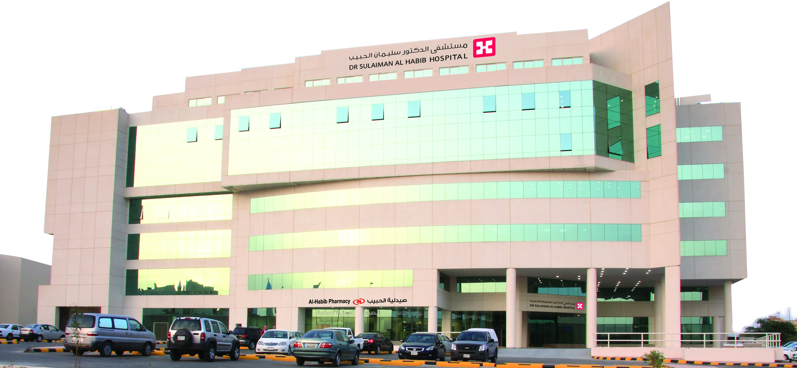 Al Qassim Hospital is the first Multispecialty Hospital of the group, strategically located in Buraidah city in Qassim. The Hospital is fully equipped with technologically advanced state-of-the-art Equipments & Infrastructure of the highest international standards. The Hospital offers truly world-class tertiary healthcare services offering patients cutting edge diagnostic and surgical solutions as well as the latest Medical Technology, Equipments and IT systems. Al Qassim Hospital is the largest Private Hospital in Al Qassim Region. The hospital offers comprehensive Out-Patient & In-Patient services. The Out-Patient Department is designed and equipped to accommodate more than 100 clinics covering a wide range of medical services. The Hospital has 150 In-Patient beds with 5 ORs dedicated for General Surgeries, ENT, Orthopedics and others. IVF treatments & related services are offered for the first time in the private sector to the public of Al Qassim, based on most international standards. The Lasik Suite is an extension of the Ophthalmology Department and offers comprehensive specialized services.